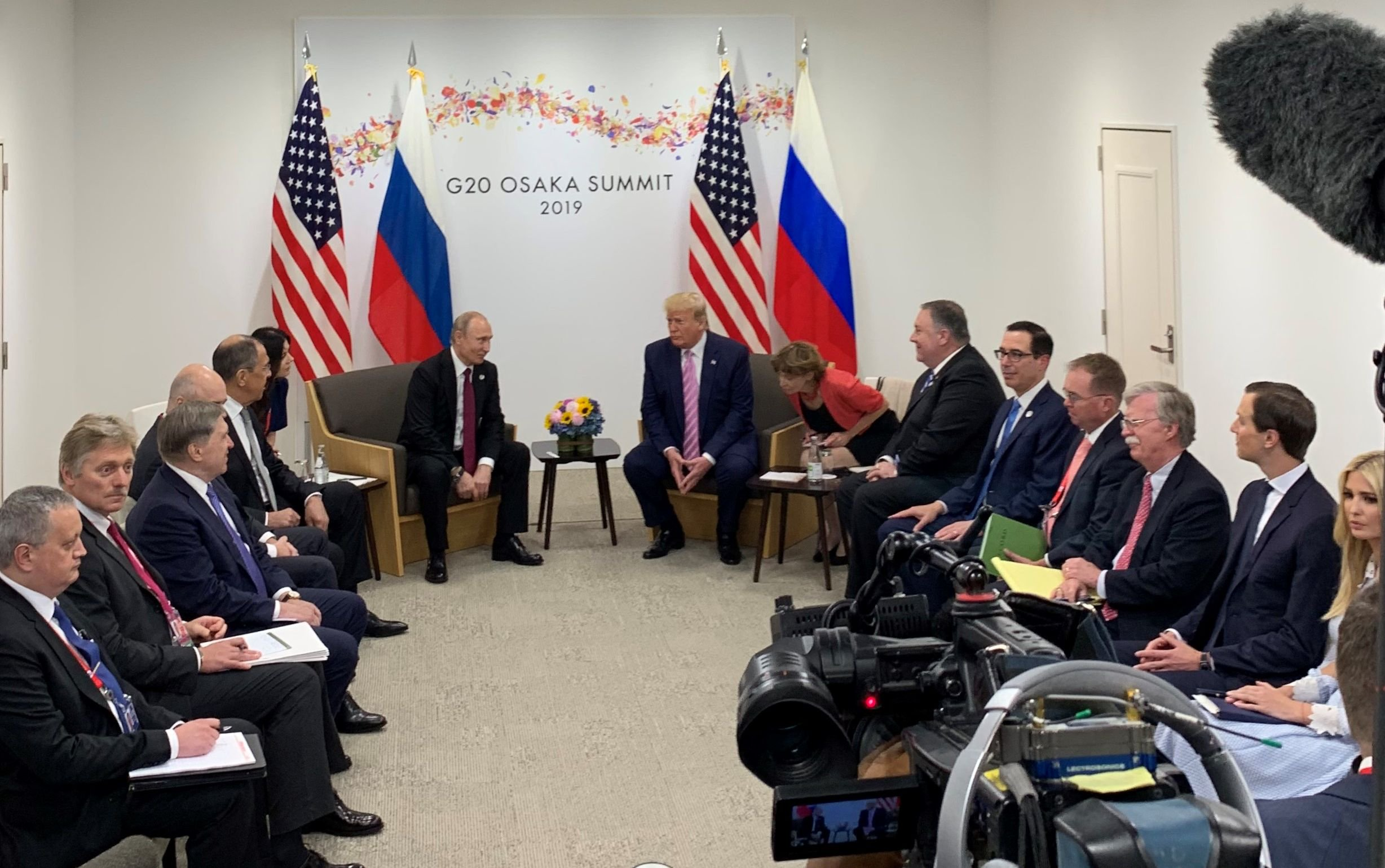 U.S. President Donald Trump and Russian President Vladimir Putin at 2019 G20 Osaka Summit